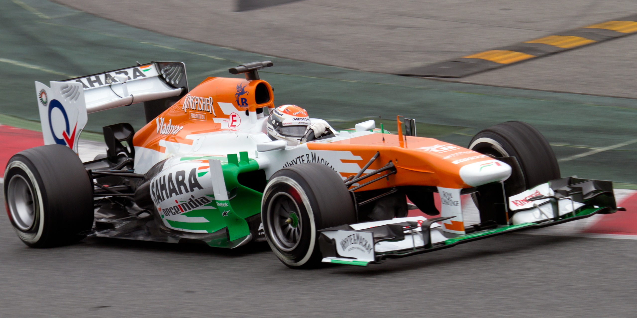 Formula One 2013 Catalonia test (19-22 February): Adrian Sutil (Force India)